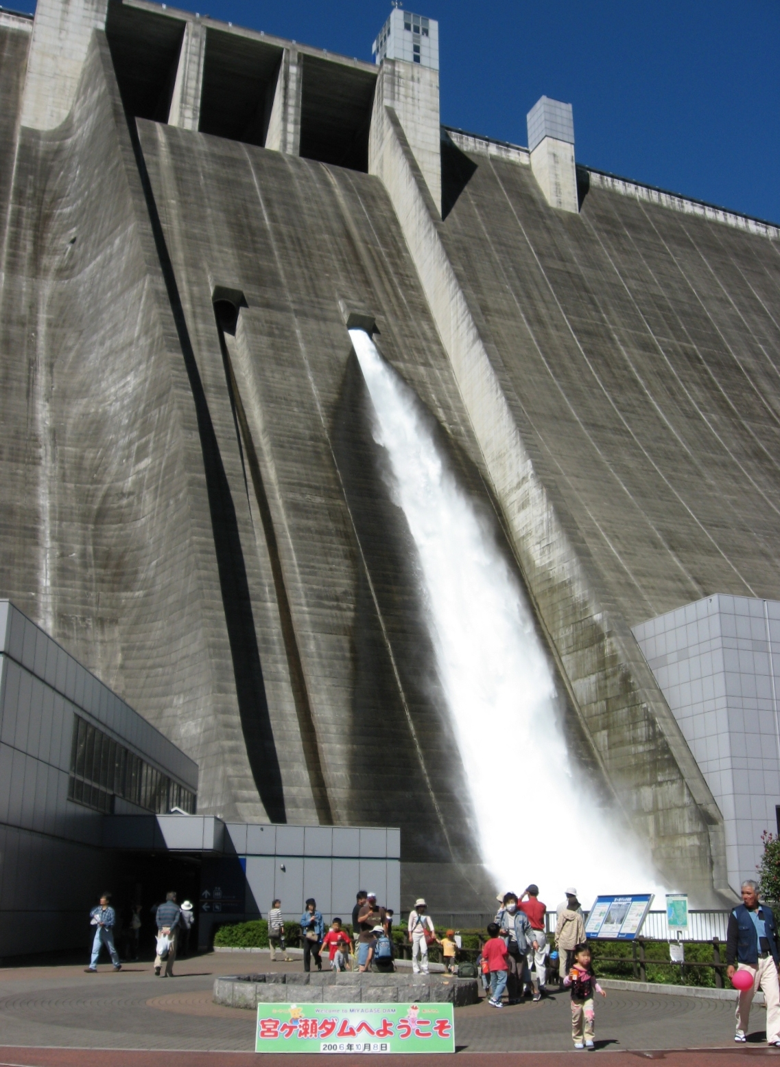 The Discharge at Miyagase Dam, Kanagawa Pref., Japan.